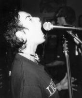 photo of the band Lesser of Two live some time in the 90's